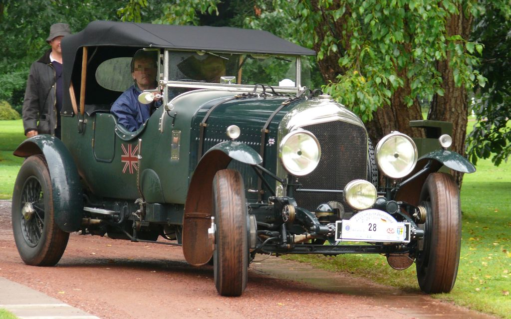 Bentley Special, built 1935, at the 2000 km durch Deutschland in Mönchengladbach. Of mysterious origins, registered in Holland as a 1935 Rolls-Royce 20/25.